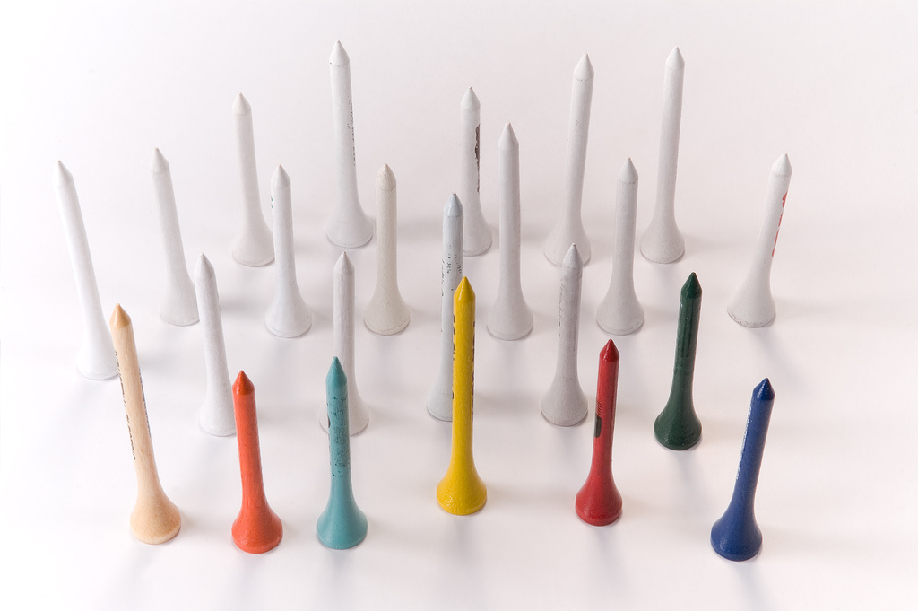 A batch of golf tees - white and colored standing on their tops, isolated on a white background.